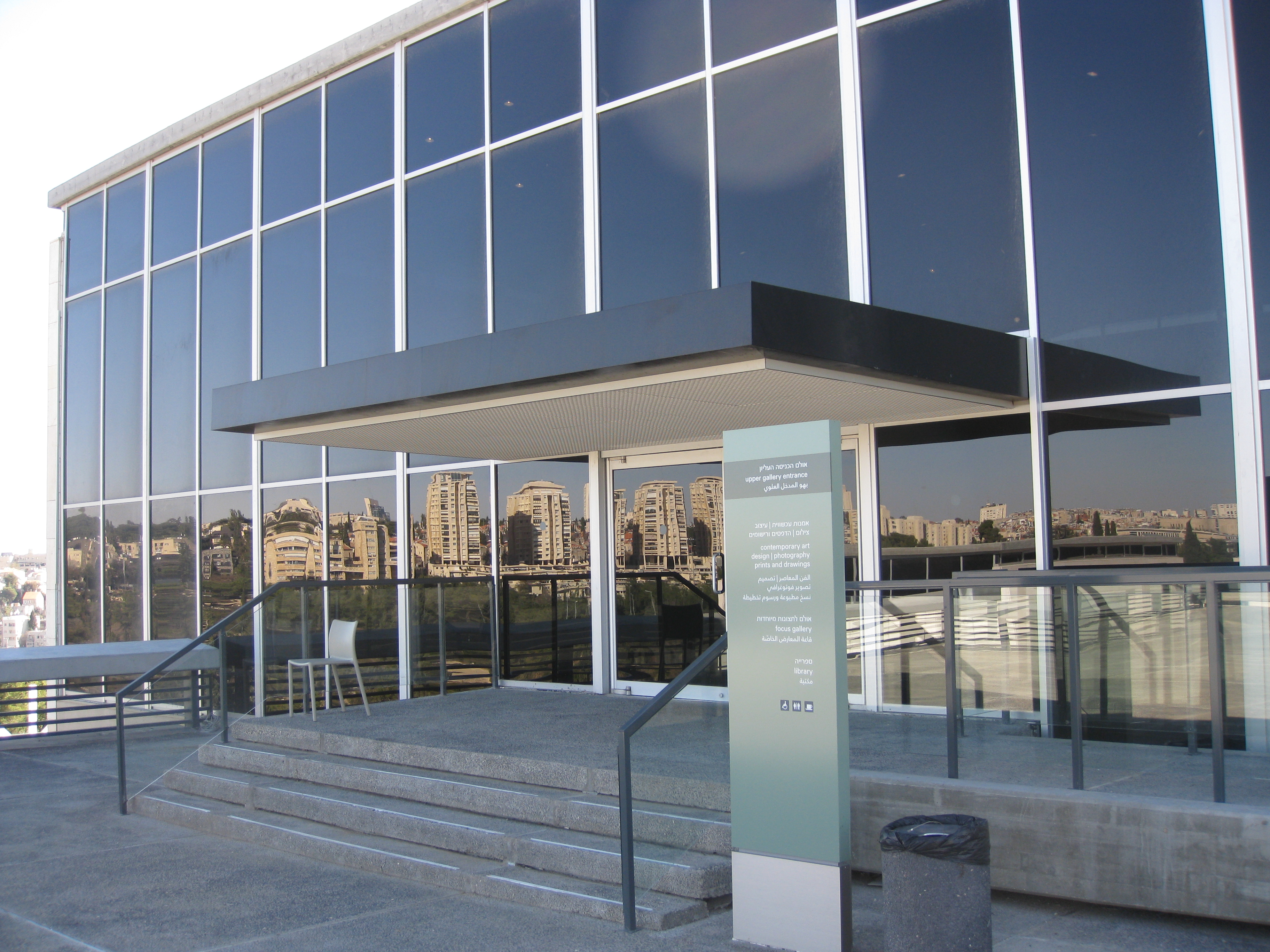 Israel museum, Jerusalem